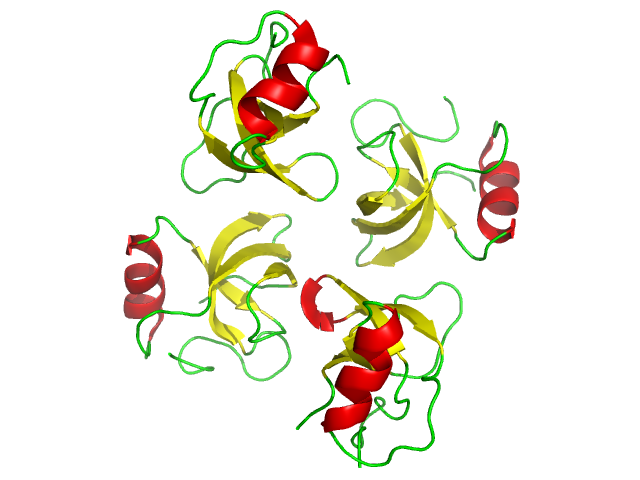 This is a structure of hydrophobin HFBI from Trichoderma reesei.